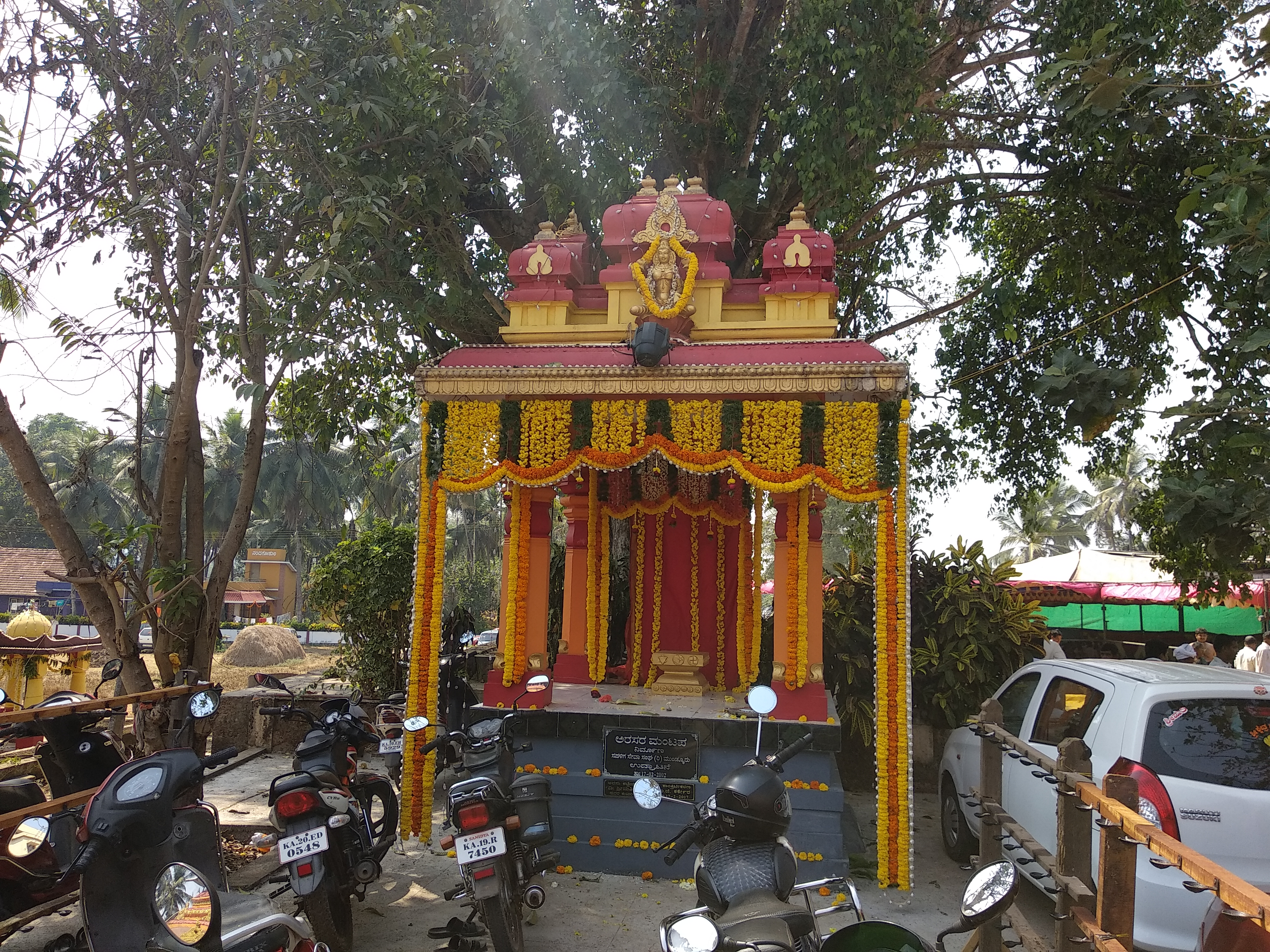 Mundkur Village, Karkal Taluk Udupi district, Karnataka India ಕನ್ನಡ: ಮುಂಡ್ಕೂರು ಗ್ರಾಮ, ಕಾರ್ಕಳ ತಾಲೂಕು ಉಡುಪಿ ಜಿಲ್ಲೆ, ಕರ್ನಾಟಕ